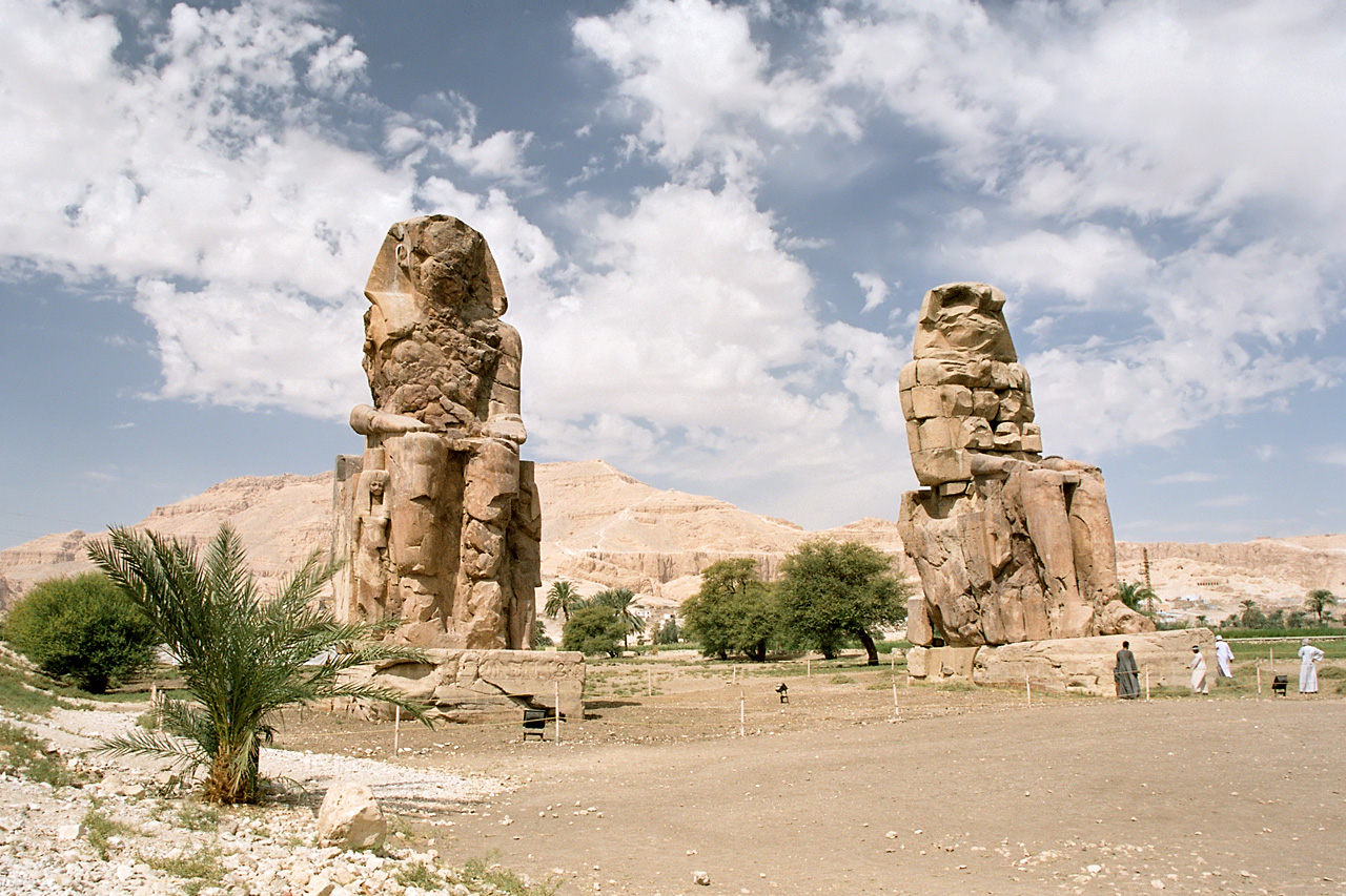 Colossi of Memnon, guarding the passage to Theban Necropolis; west-bank's section of Luxor, Egypt